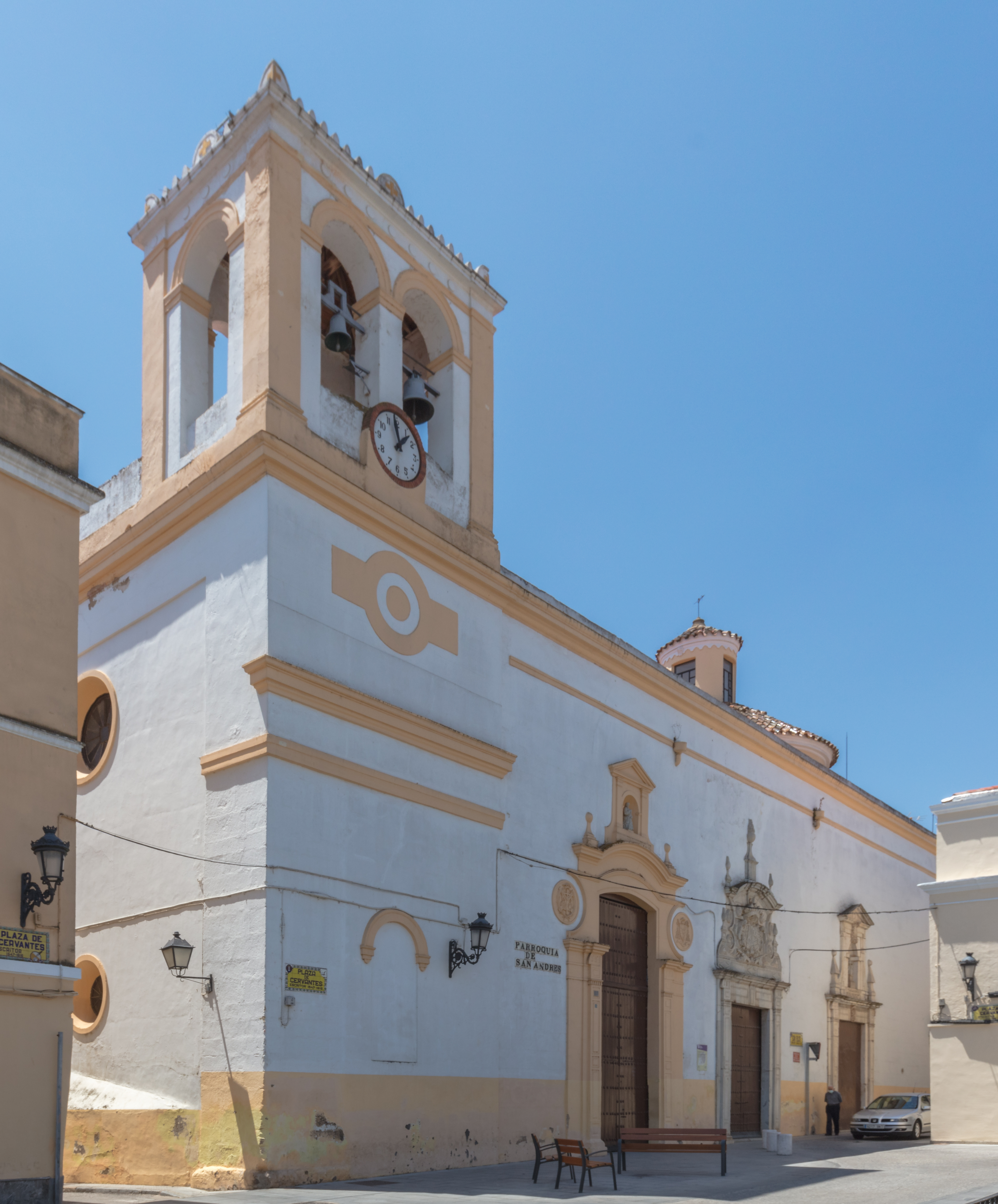 Church of St Andrés, Badajoz, Spain